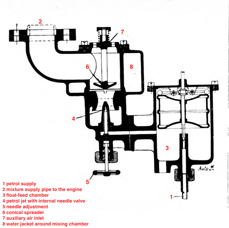 1902 Daimler carburettor 1 petrol supply 2 mixture supply pipe to the engine 3 float-feed chamber 4 petrol jet with internal needle valve 5 needle adjustment 6 conical spreader 7 auxiliary air inlet 8 water jacket around mixing chamber